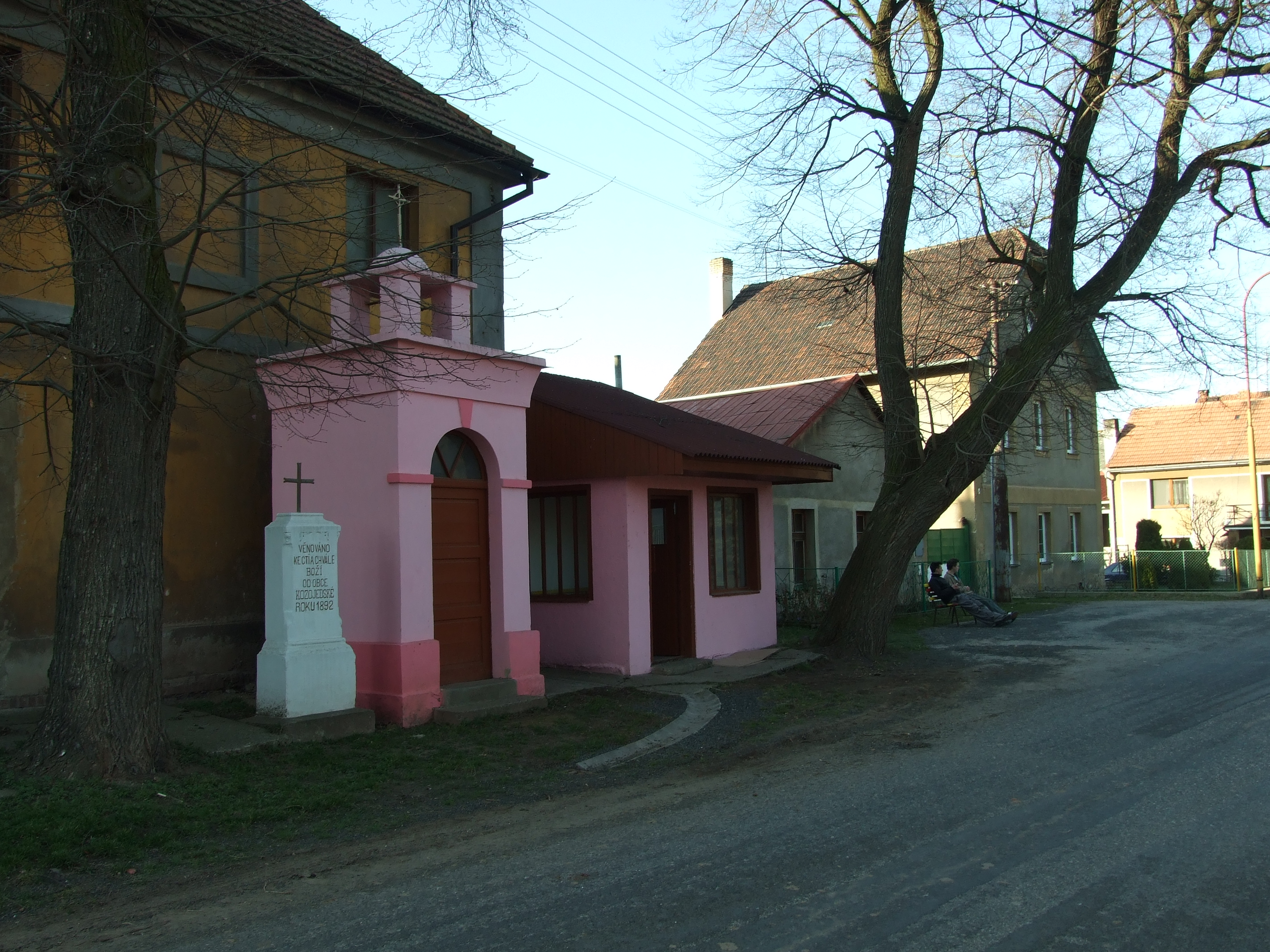 Bus stop in Kozojedy - Rakovník District. Central Bohemian Region, CZ